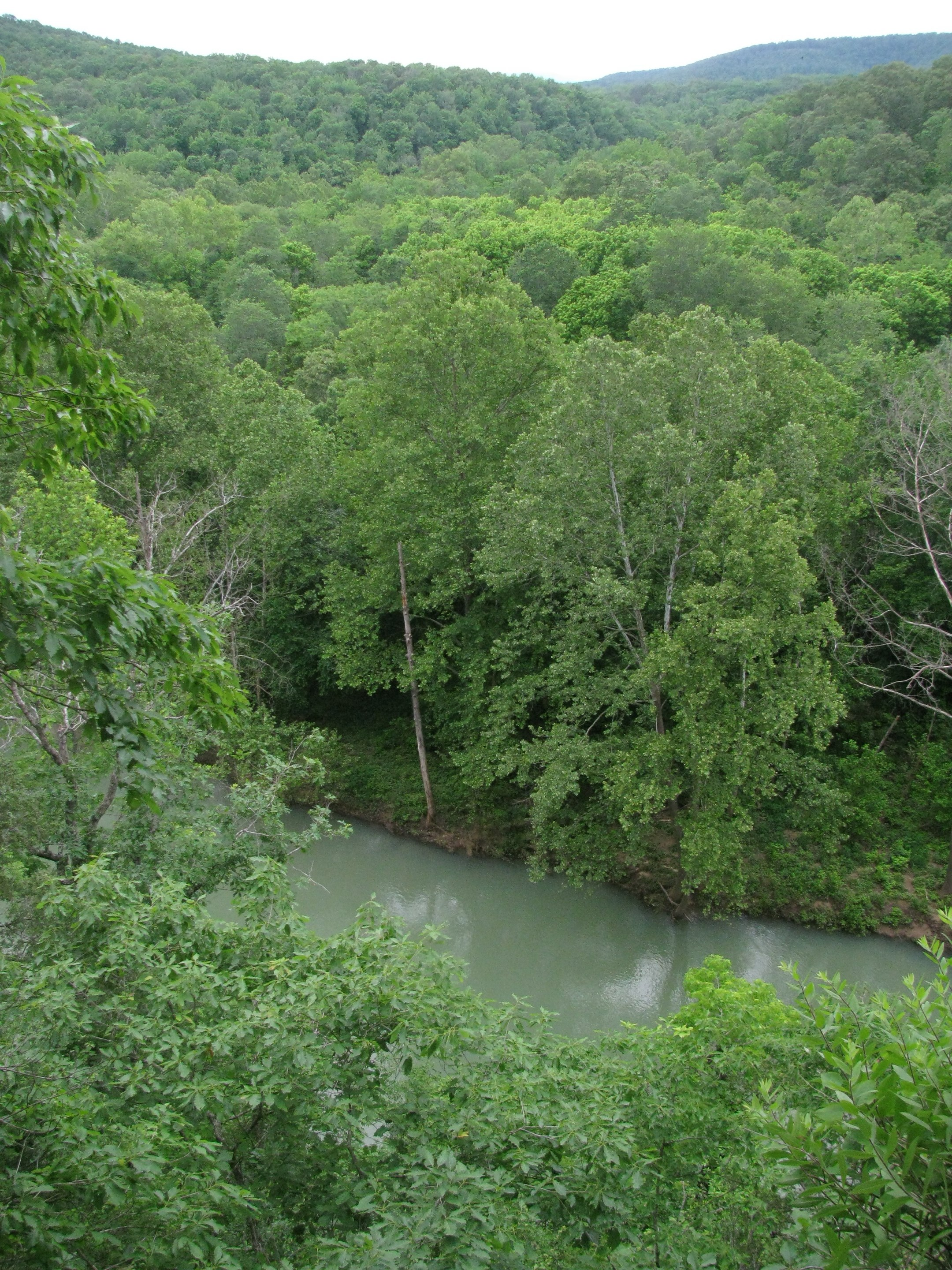 Trail along the Buffalo River in the Arkansas Ozarks